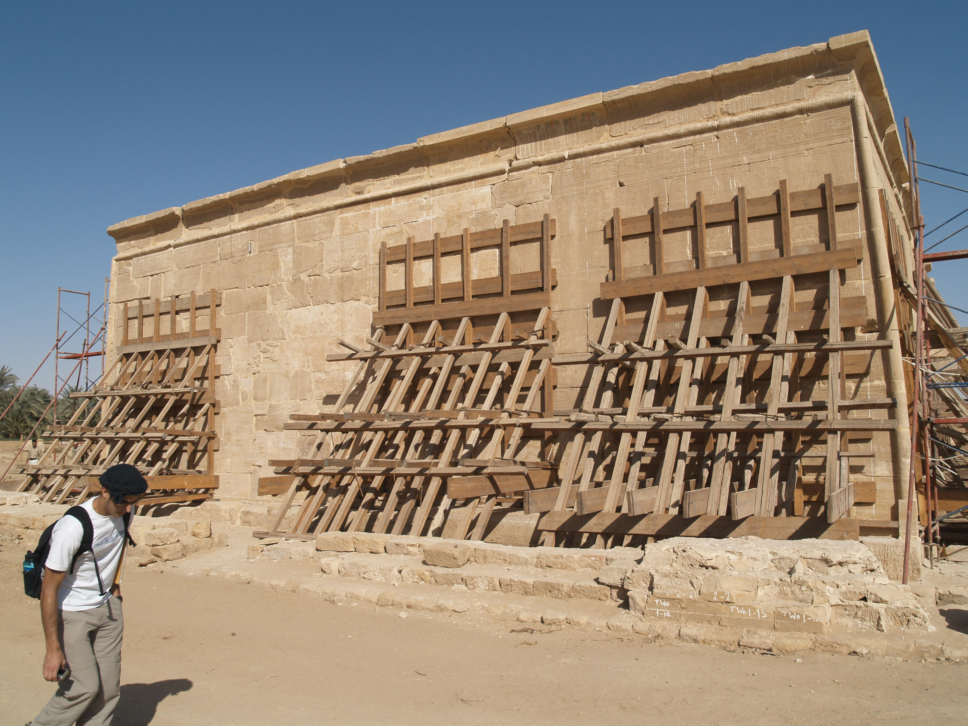 AWIB-ISAW: Hibis, Temple (VIII) An exterior wall of the Hibis temple dedicated to the Theban triad (Amun, Mut & Khonsu) during its recent restoration. by NYU Excavations at Amheida Staff (2006) copyright: 2006 NYU Excavations at Amheida (used with permission) photographed place: Hebet (Hibis) [1] authority: Image published on the authority of the Amheida Project Director, Roger Bagnall Published by the Institute for the Study of the Ancient World as part of the Ancient World Image Bank (AWIB). Further information: [2].